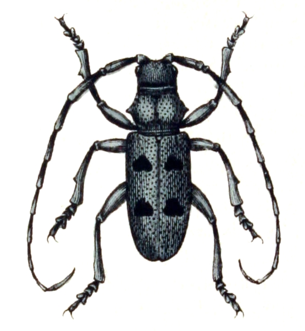 Morimus asper funereus, from Calwer's Käferbuch, Table 39, Picture 4. Taxonomy was updated to 2008, using mostly the sites Fauna Europaea and BioLib. Please contact Sarefo if the determination is wrong!